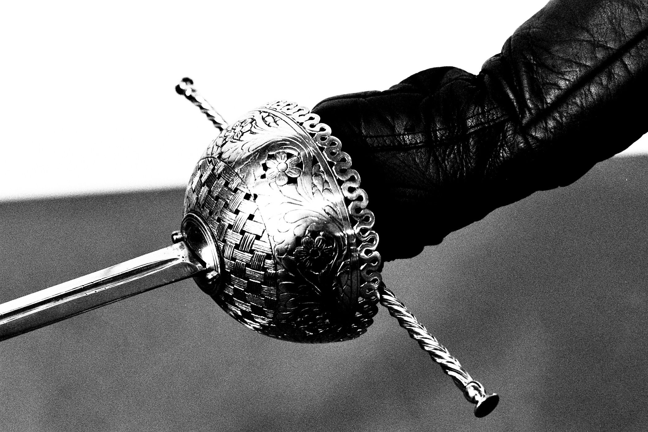 Modern replica of a rapier.Leica R4s, Fujifilm Neopan 1600